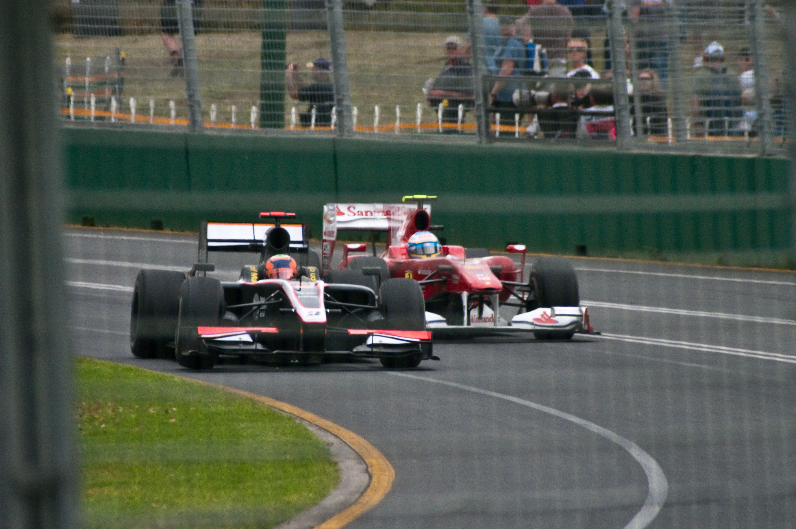 Karun Chandhok (Hispania Racing) and Fernando Alonso (Scuderia Ferrari) at the 2010 Australian Grand Prix.